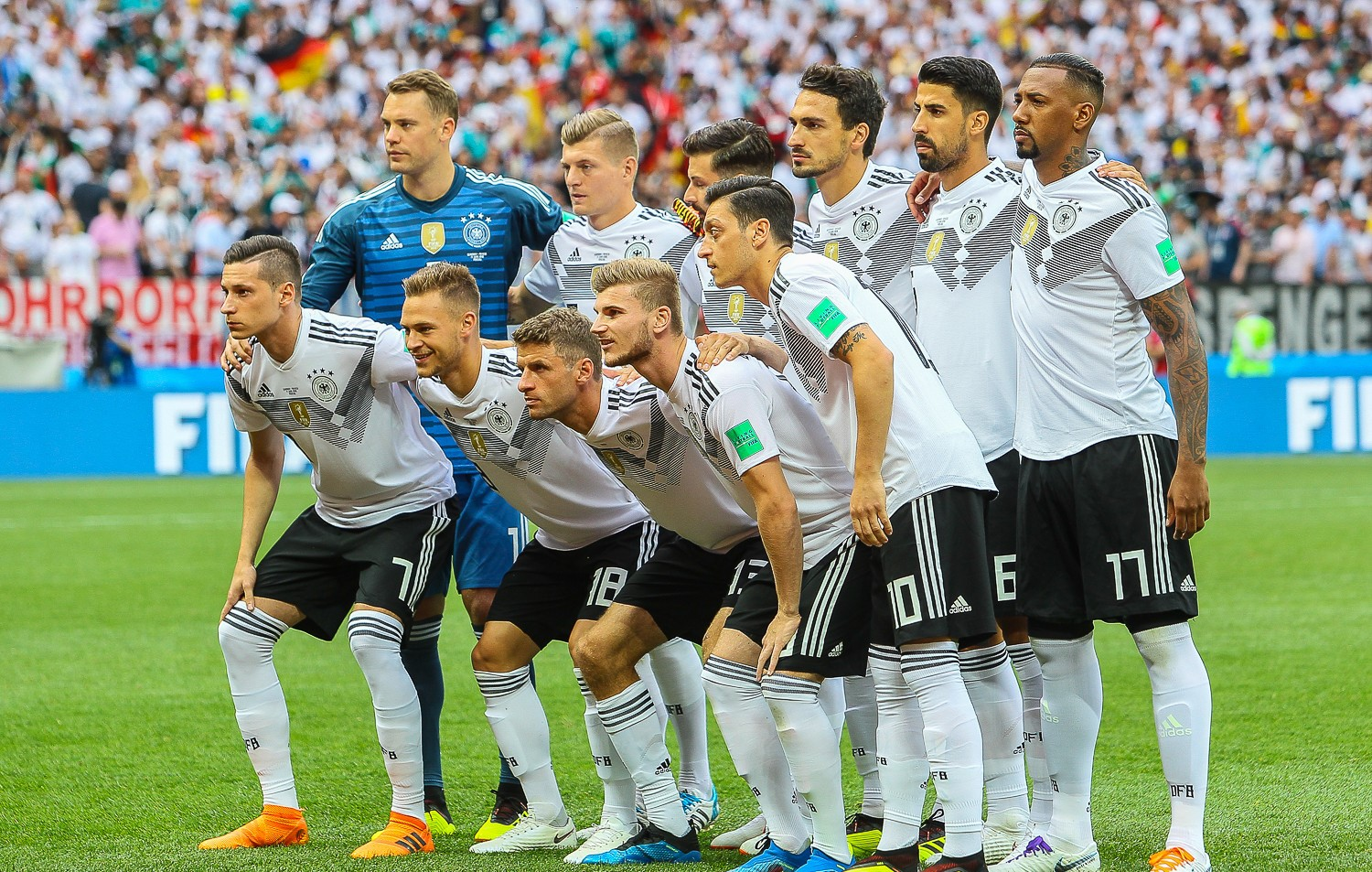 Germany national association football team